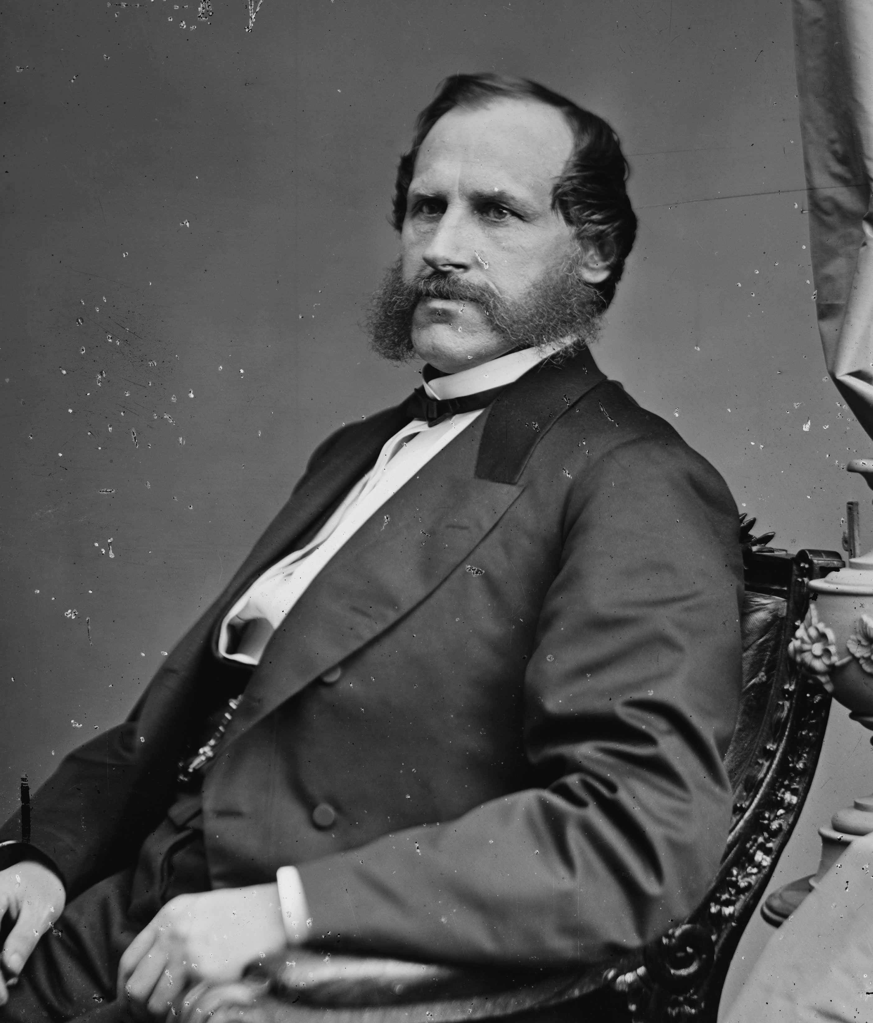 George Henry Williams, former Attorney General of the United States.